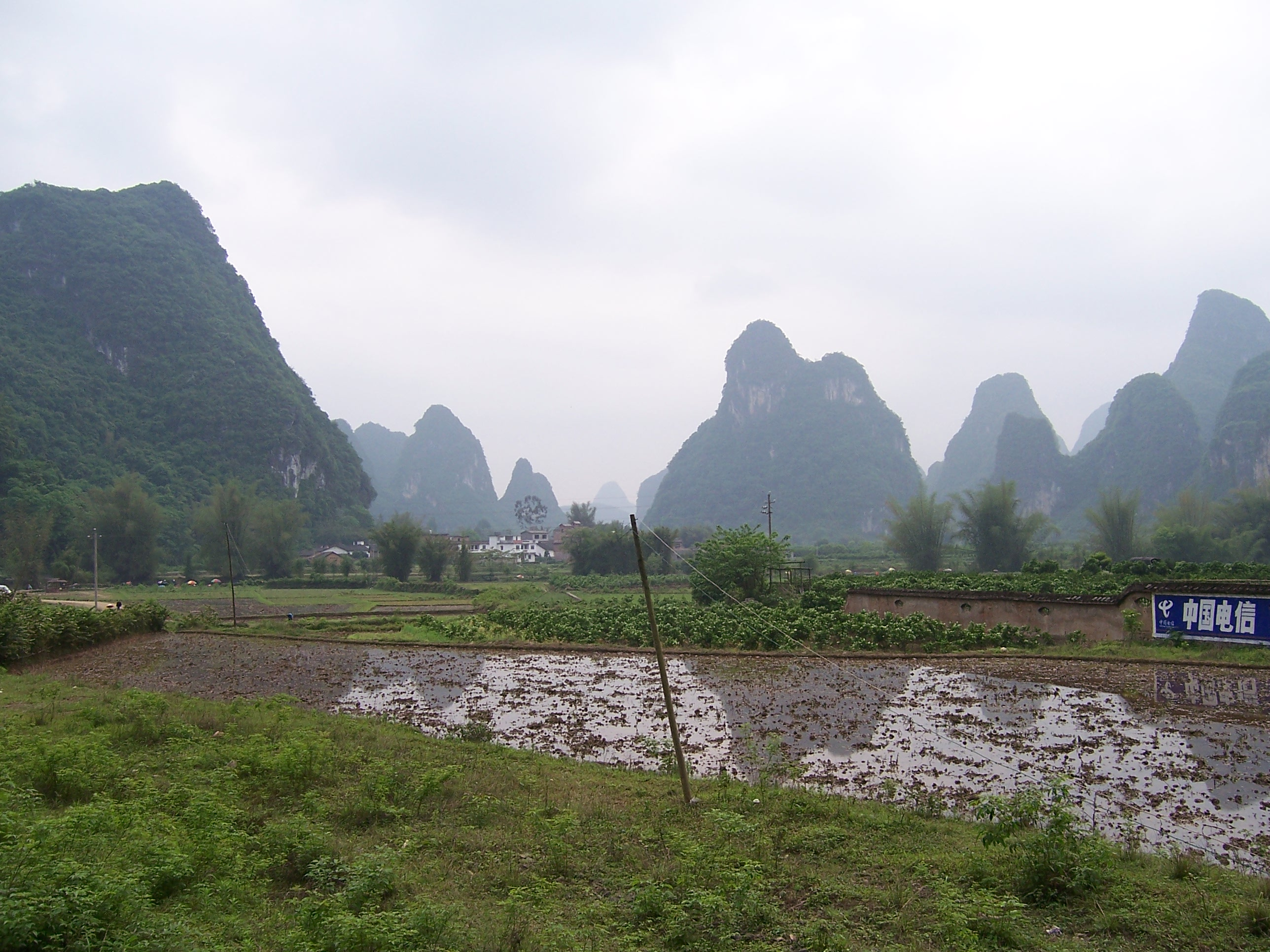 China - Yangshuo 14 - karst peaks tower over the paddy fields